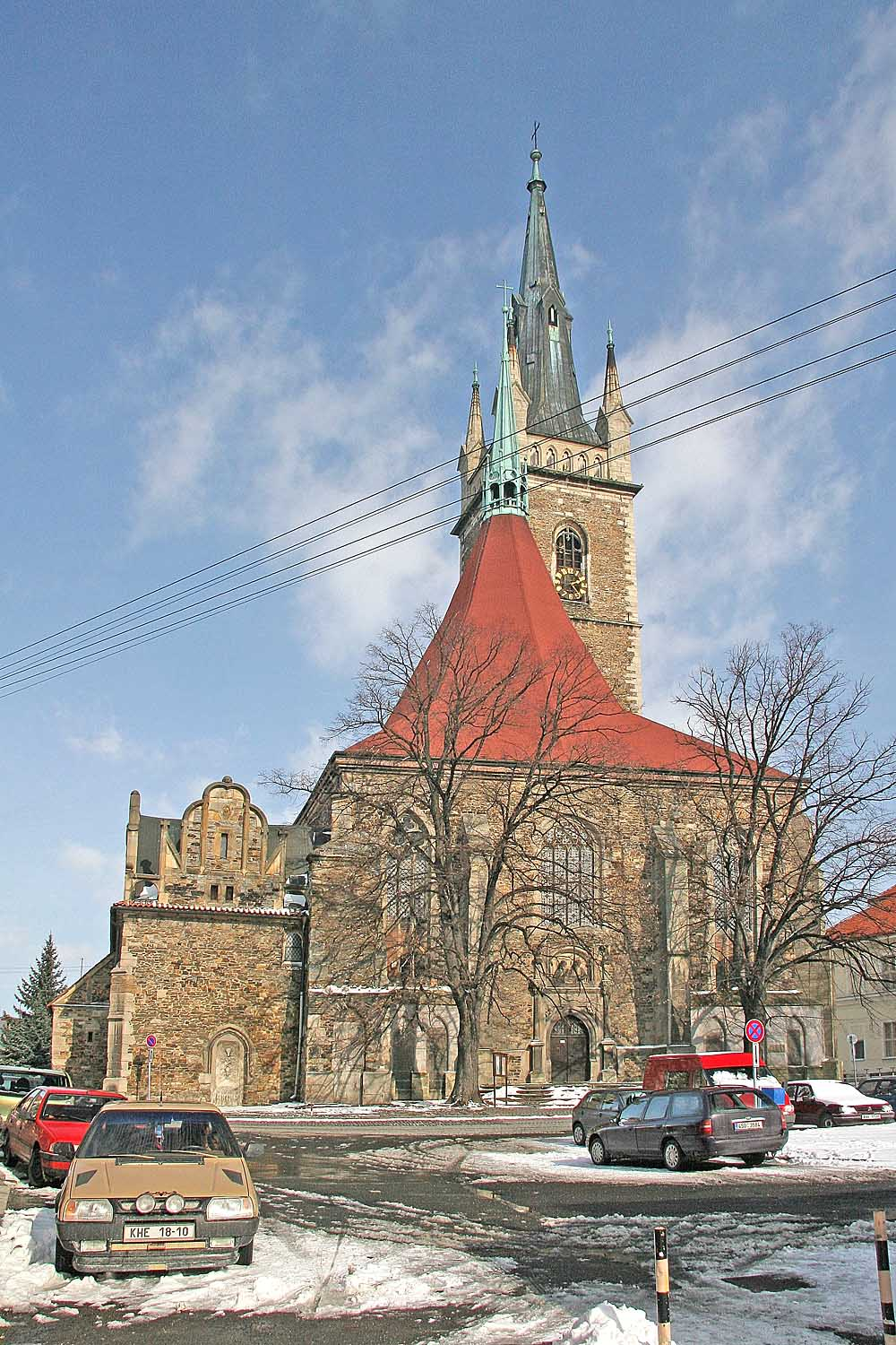 Church of SS Peter and Paul in Čáslav. autor: Prazak date: 13. 3. 2006